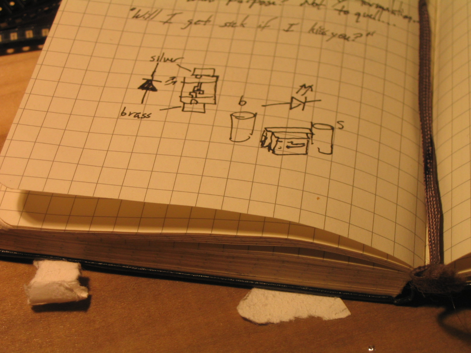 A notebook with a scarf.